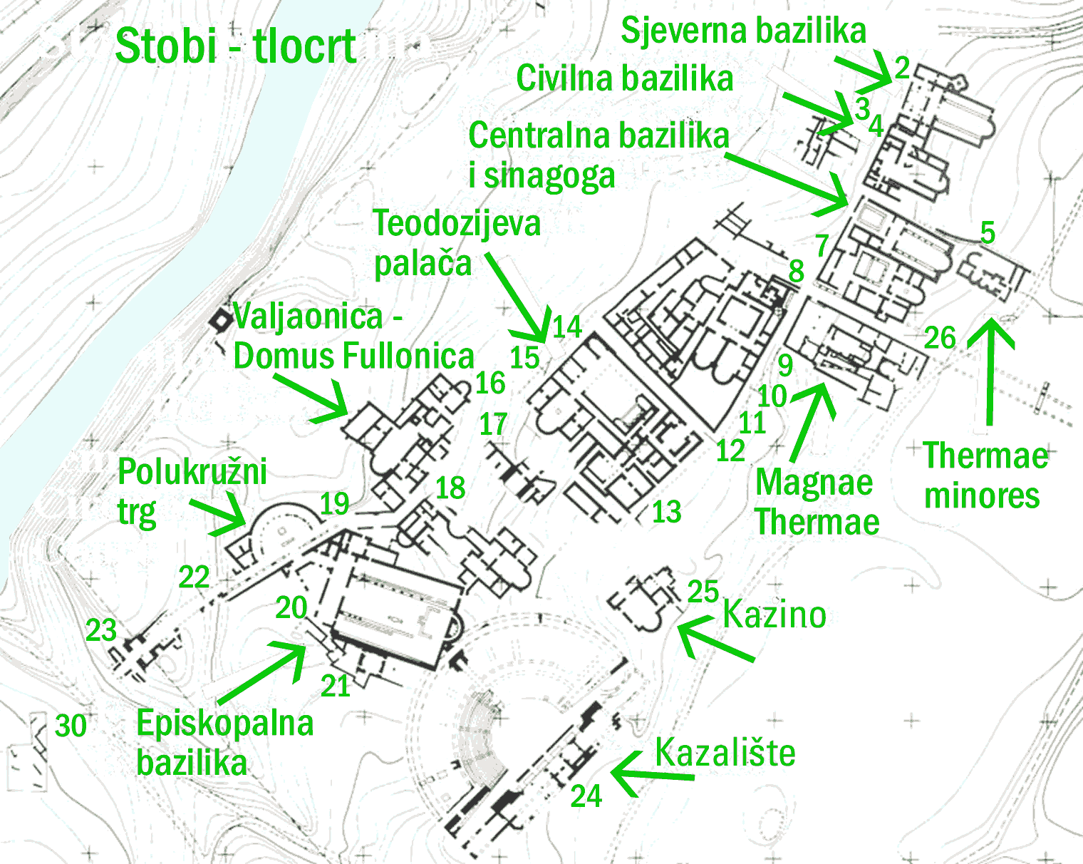 plan of archeological site